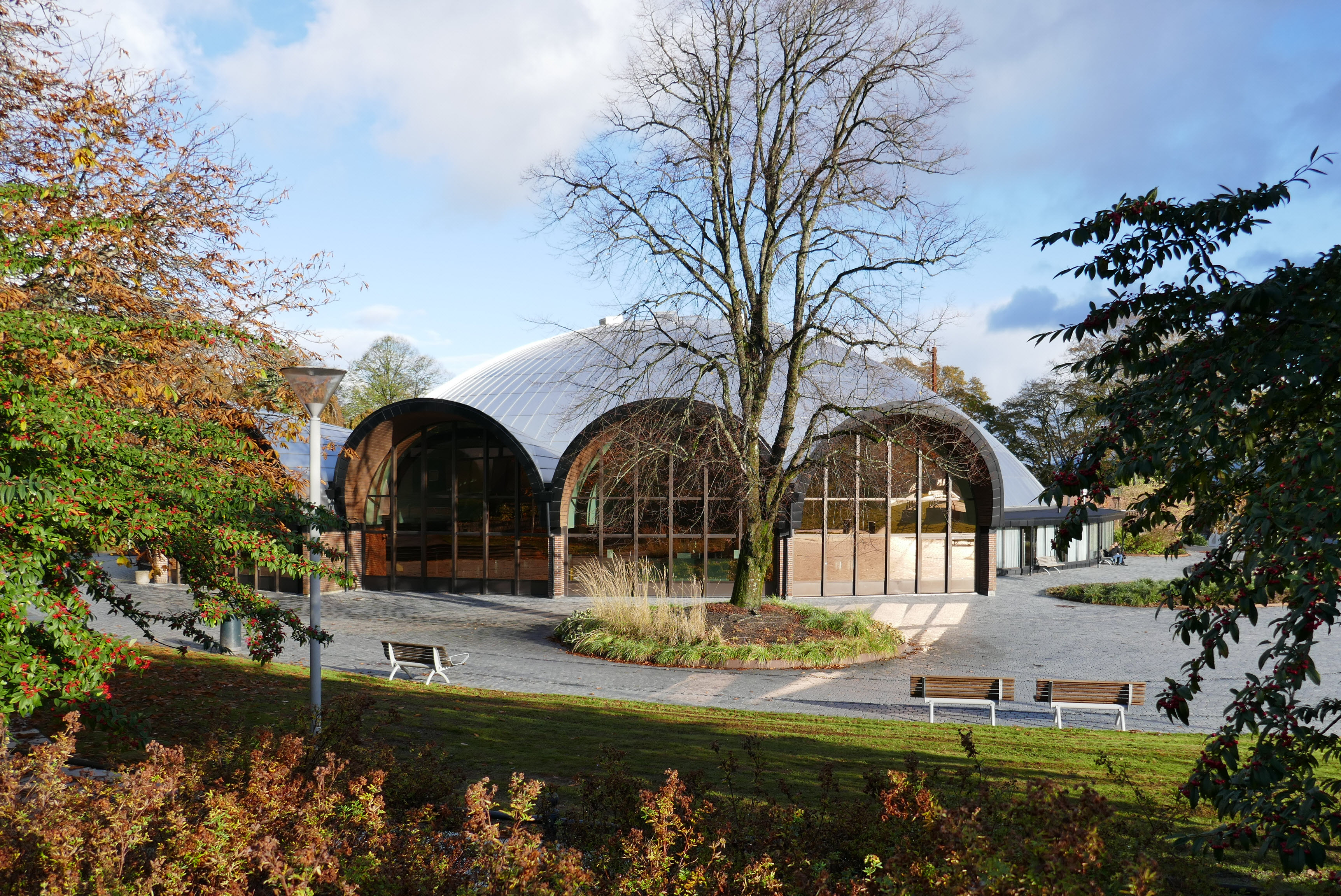 Kuppelhallen, Stavanger concert hall